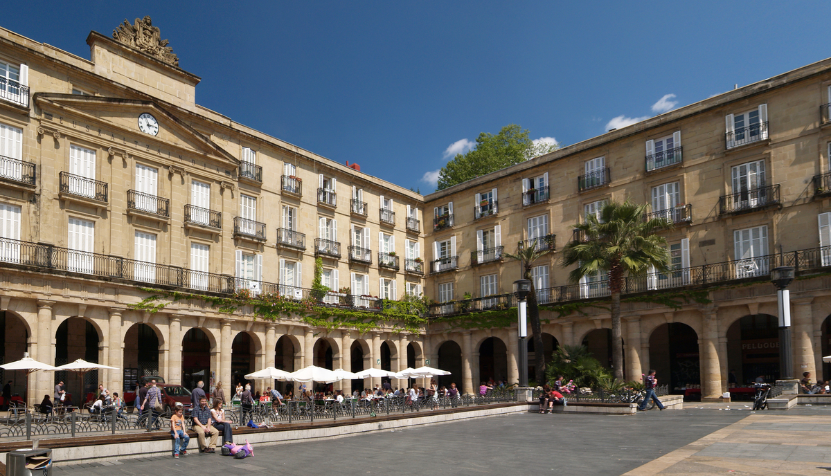 Plaza Nueva (Plaza Barria) in Bilbao (stitch of 4 vertical shots)